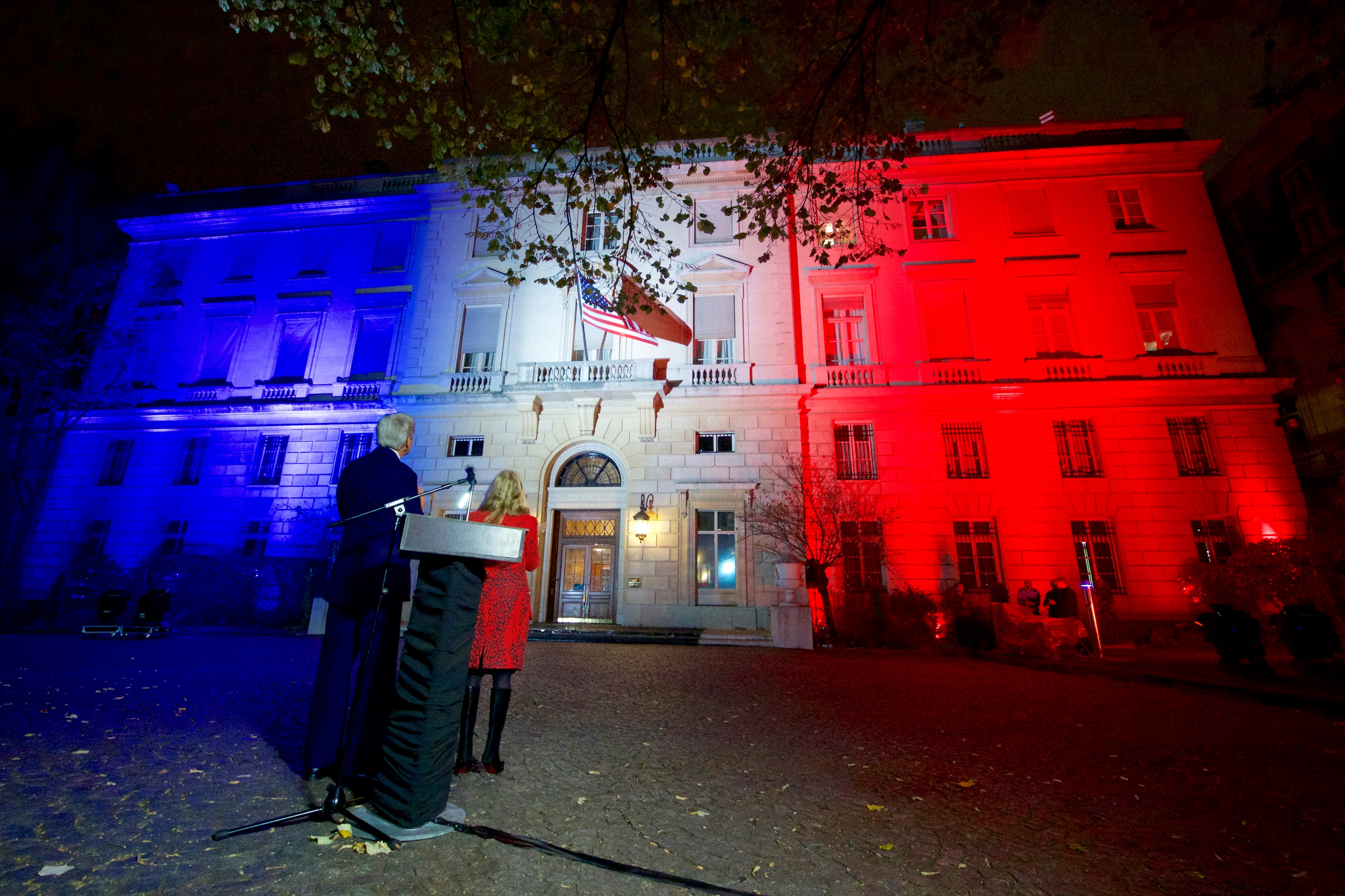 U.S. Secretary of State John Kerry, joined by U.S. Ambassador to France Jane Hartley, looks at the U.S. Embassy in Paris, France, in the French tricolor after he lit it on November 16, 2015, in a sign of solidarity following a terrorist attack on the capital city last week. [State Department Photo/Public Domain]